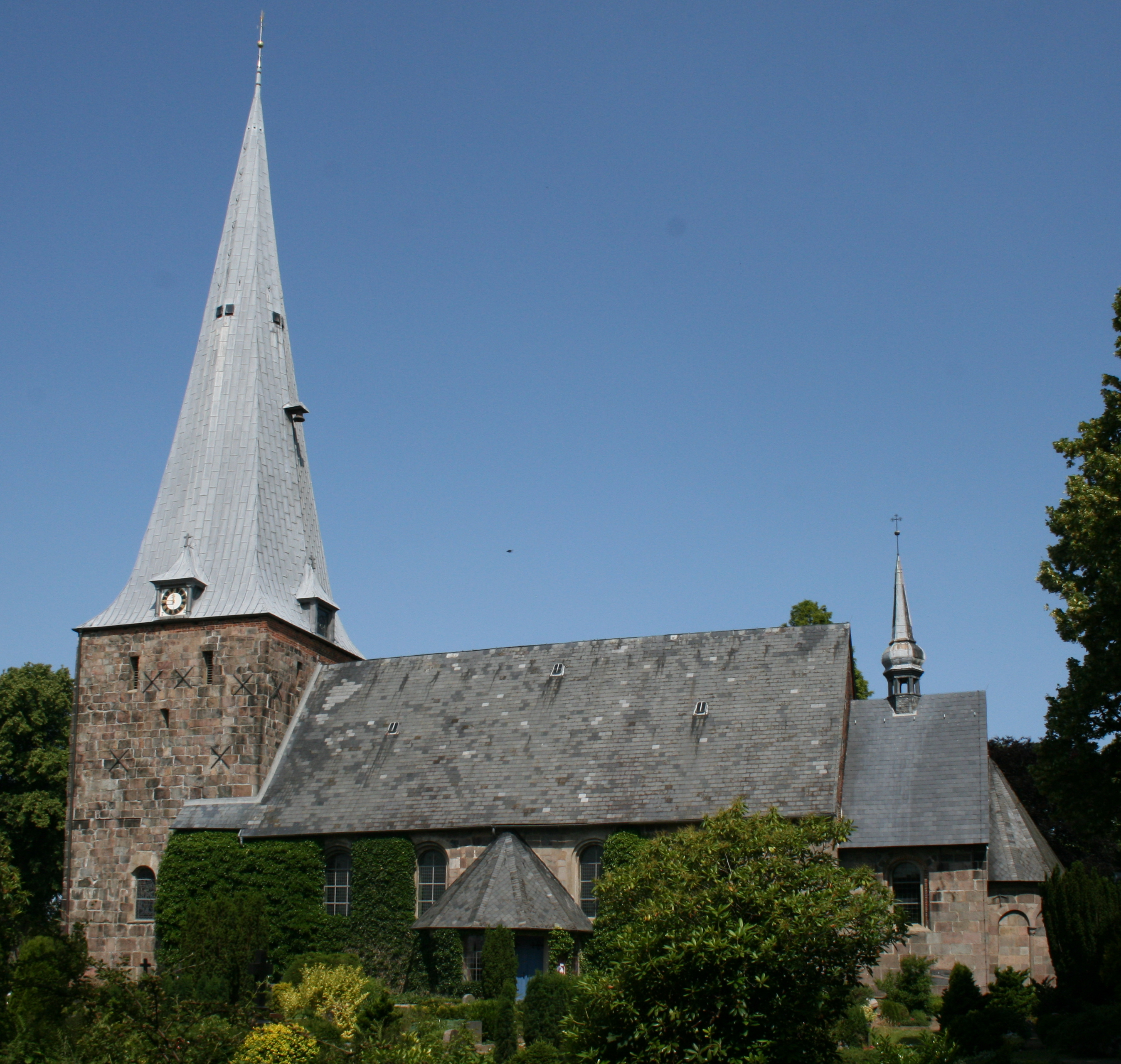 St. Marienkirche in Sörup (Angeln / Schleswig-Holstein)